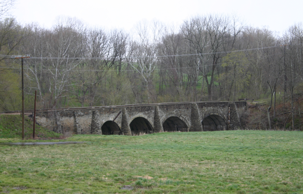 Goose Creek Bridge beside modern U.S. 50 in Loudoun County, Virginia.